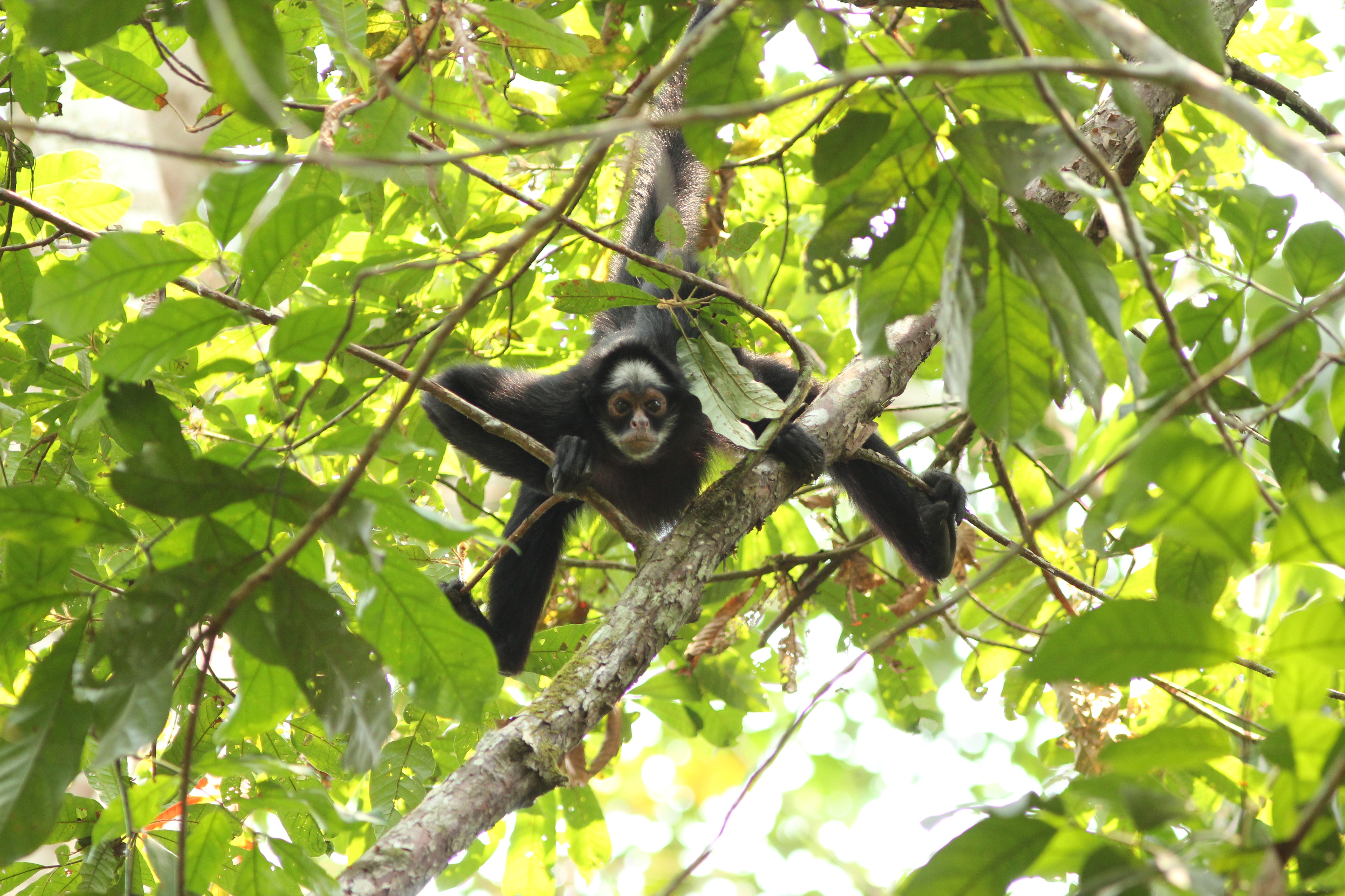 White-cheeked spider monkey (Ateles marginatus) in Cristalino Jungle Lodge, Mato Grosso, Brazil.